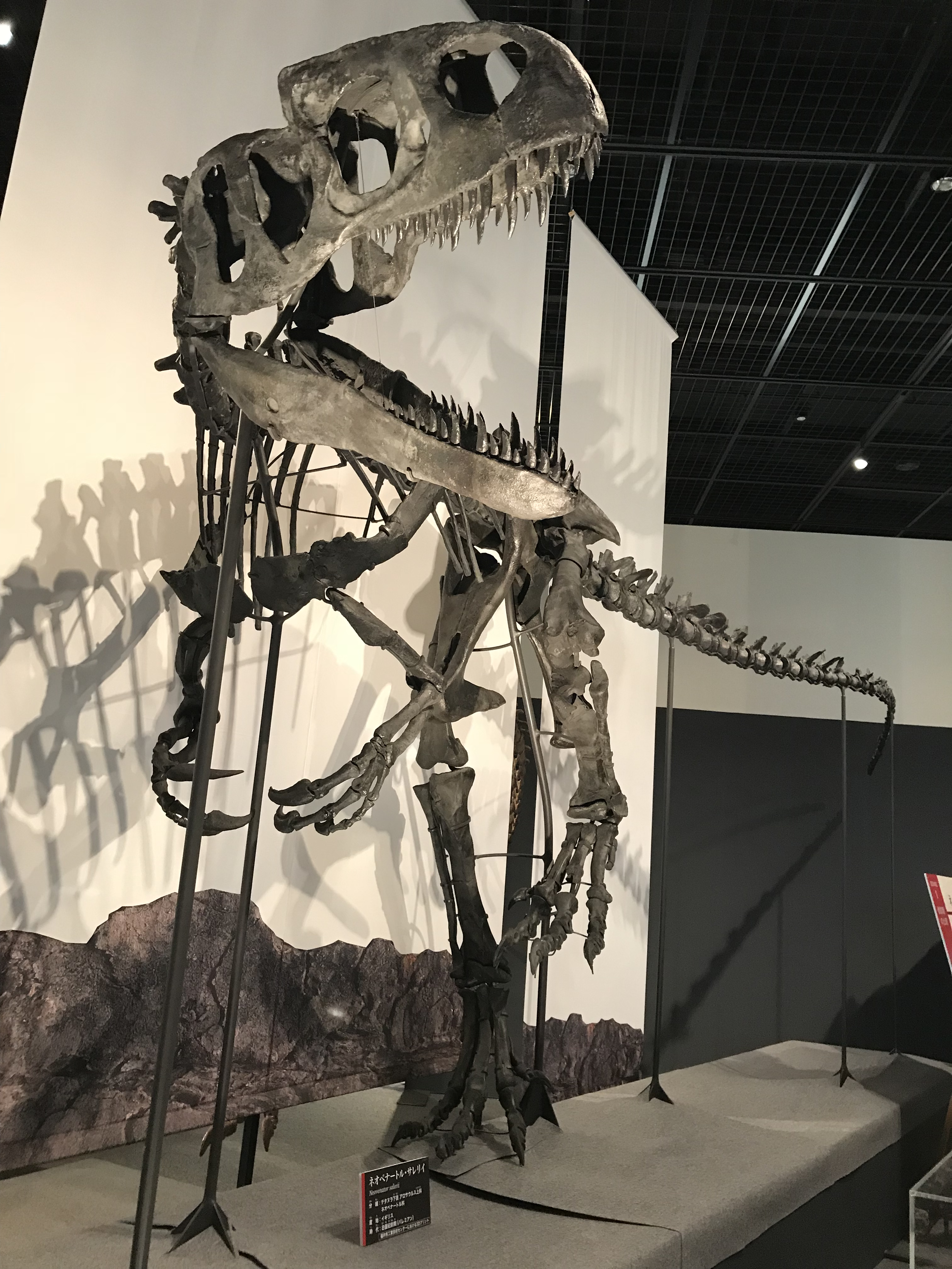 Dinosaur.